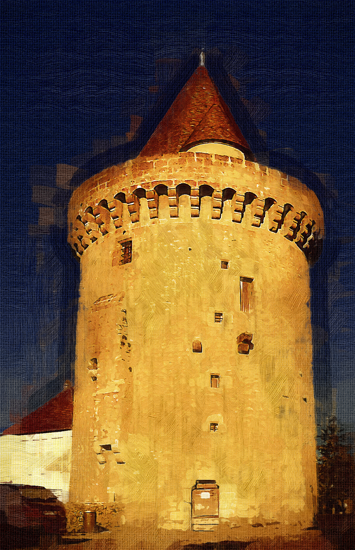 Largest of the original fortified towers of the town wall and the only one to survive.